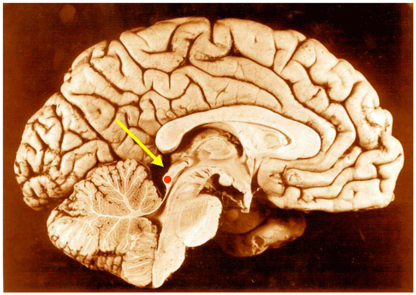 The inferior colliculus (red dot) in a human brain which has been cut down in the middle to show some of the sub-cortical areas.